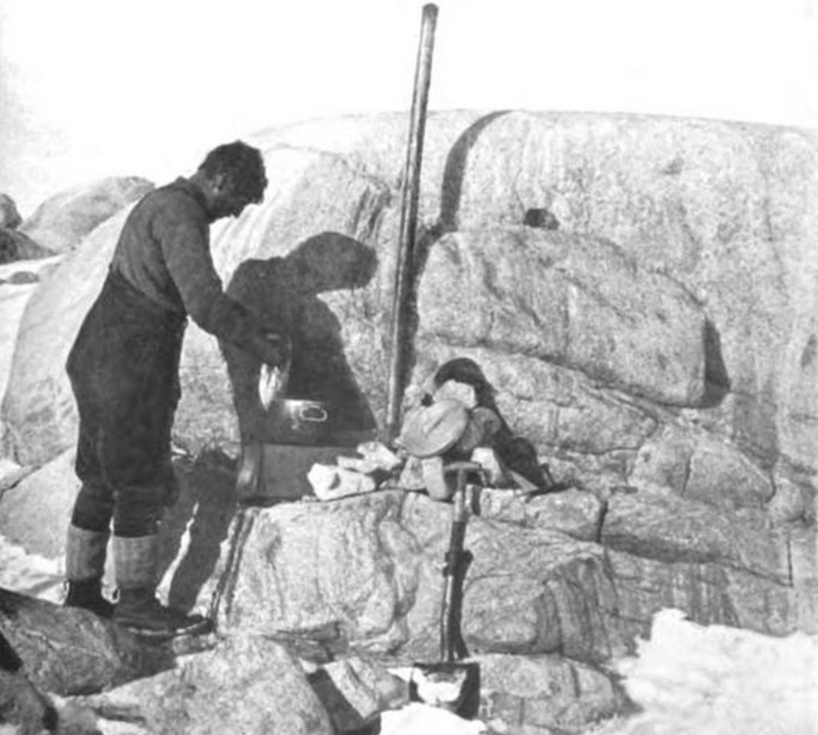 Forde Cooking Seal Fry on the Blubber Stove at Cape Roberts